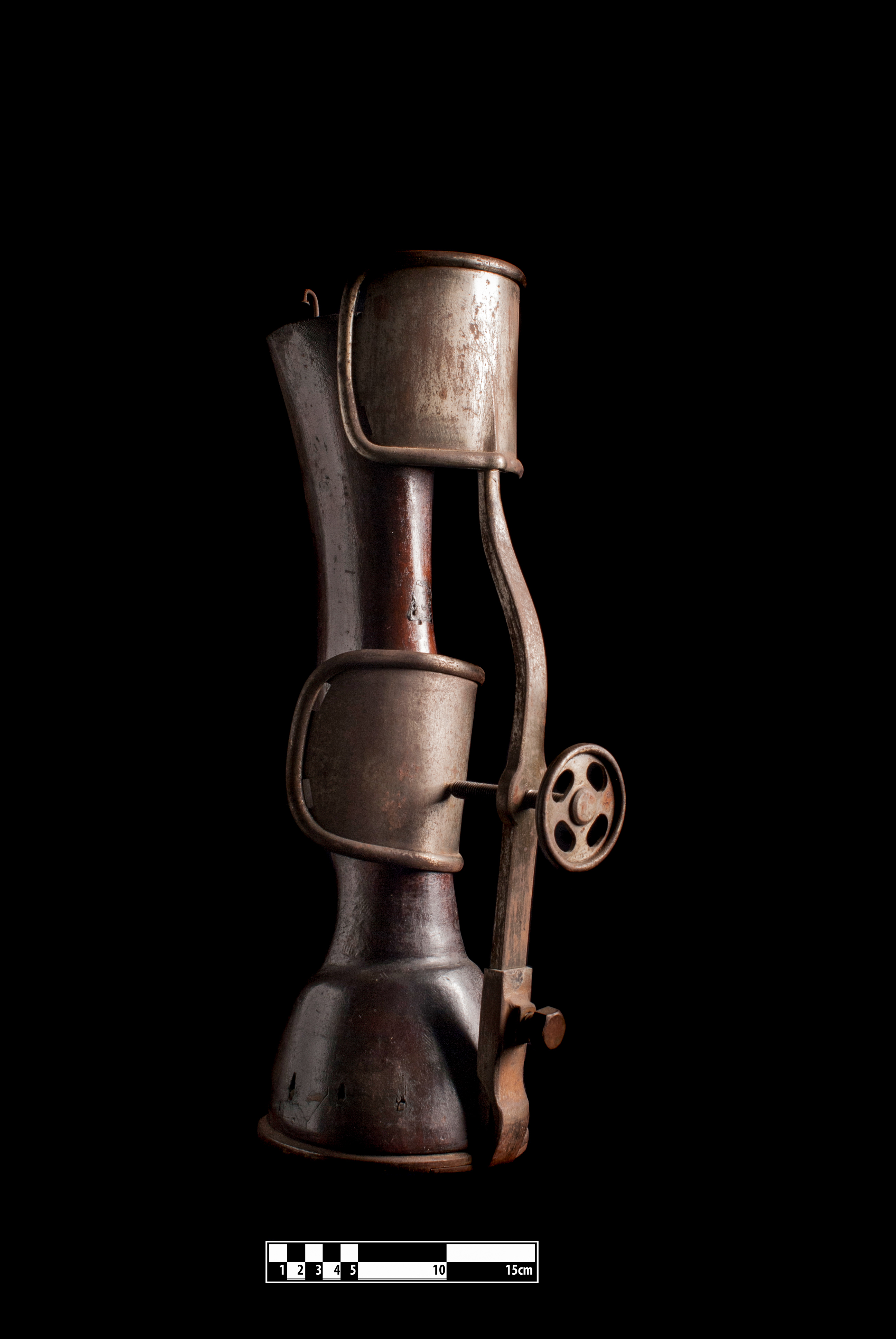 Corrective device for horses. The object includes a support for the locomotor system of the horse associated to corrective horseshoes, on display at the Museum of Veterinary Anatomy FMVZ USP. Probably made in the 30s or 40s of the XXth century. This file was published as the result of a partnership between the Museum of Veterinary Anatomy FMVZ USP, the RIDC NeuroMat and the Wikimedia Community User Group Brasil. This GLAM project is reported. Photography: Museum of Veterinary Anatomy FMVZ USP. Author: Wagner Souza e Silva.